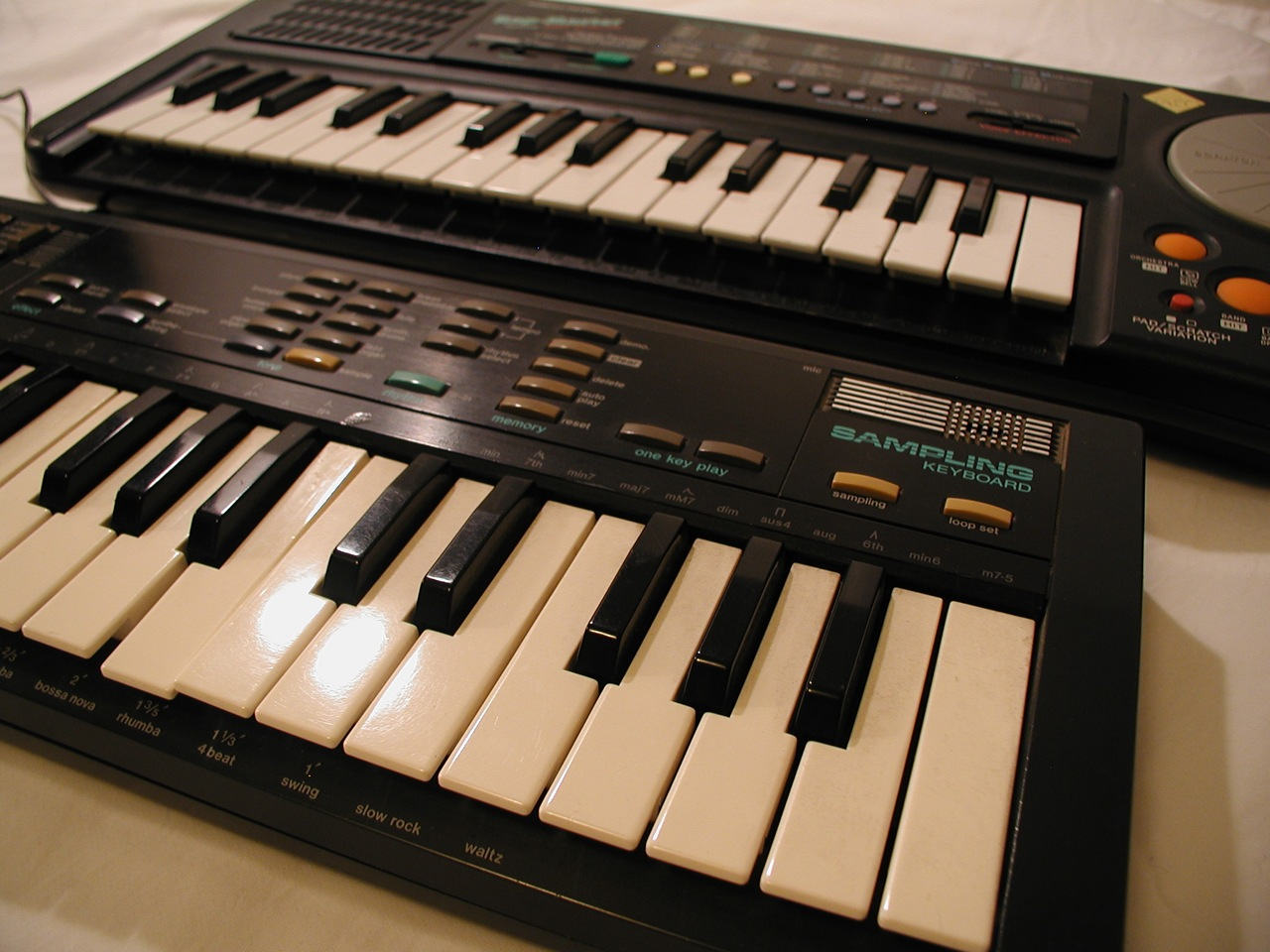 My beloved Casio SK-1 shares this shot with its genetic relative, the Realistic Rap-Master. Radio Shack sold the Rap-Masters long after the SK-1 was out of production, but the internals are amazingly similar.